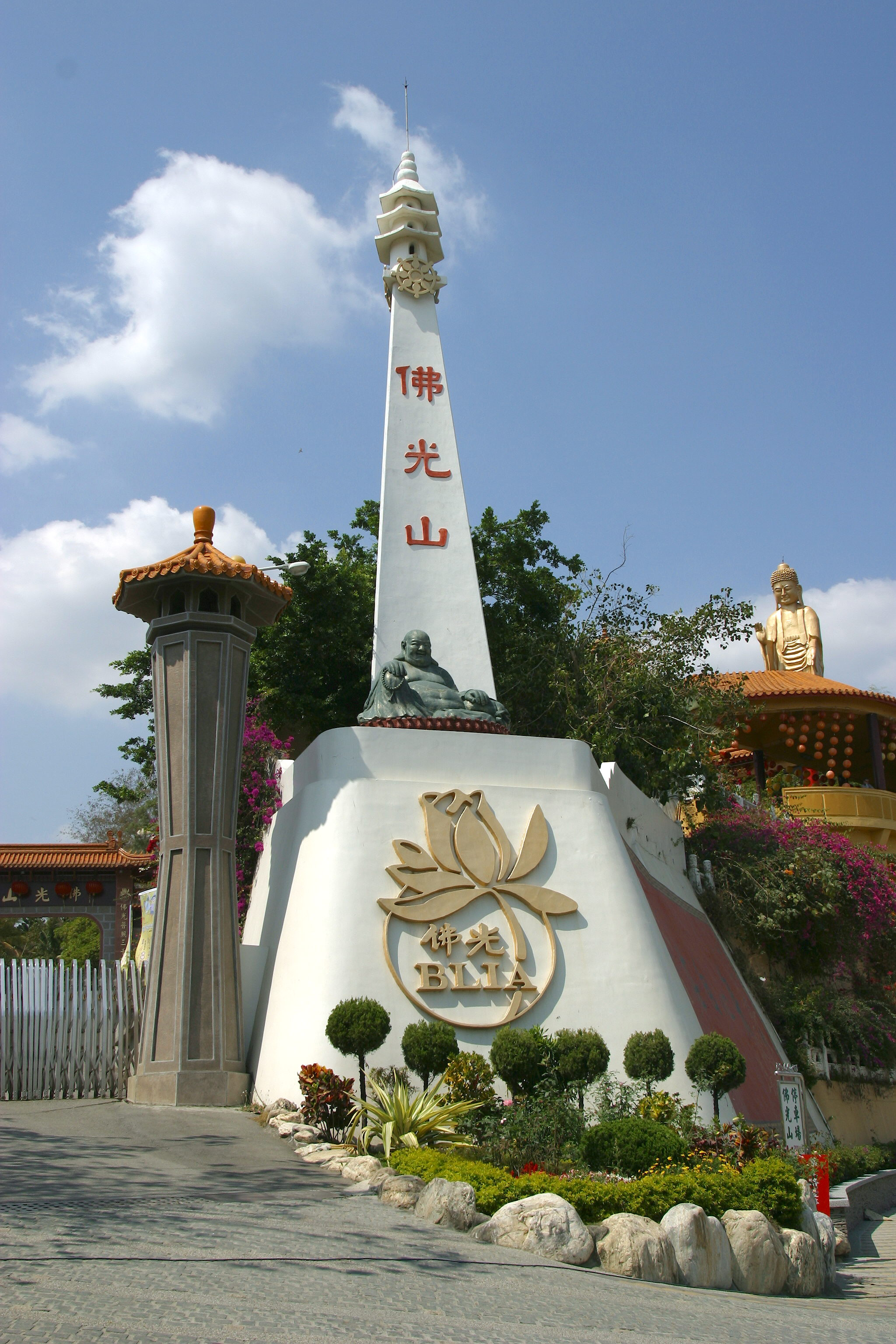 An image of Maitreya Buddha by the main gate of the Monastery which sits on the founding pillar.